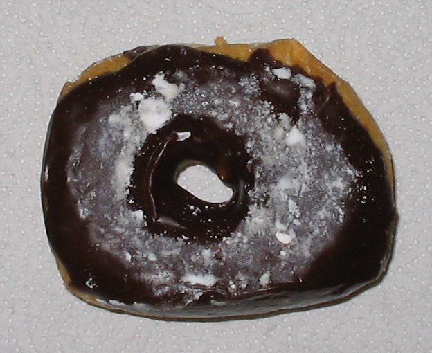 A photograph of a chocolate-glazed doughnut. David Benbennick took this picture on Wednesday, January 5, 2005.